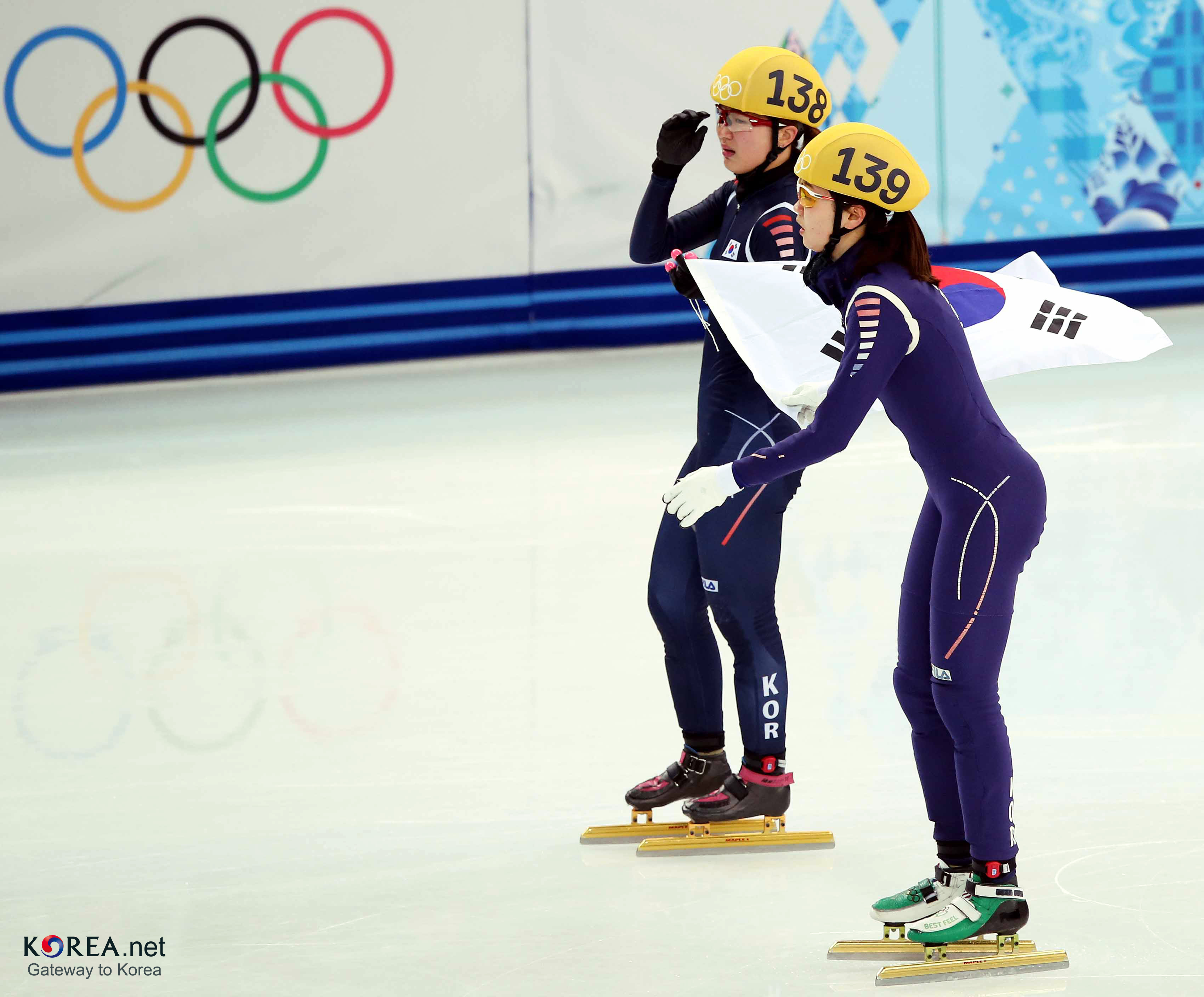 Korea_Park_Seunghi_Gold_Sochi_ShortTrack_1000m_05